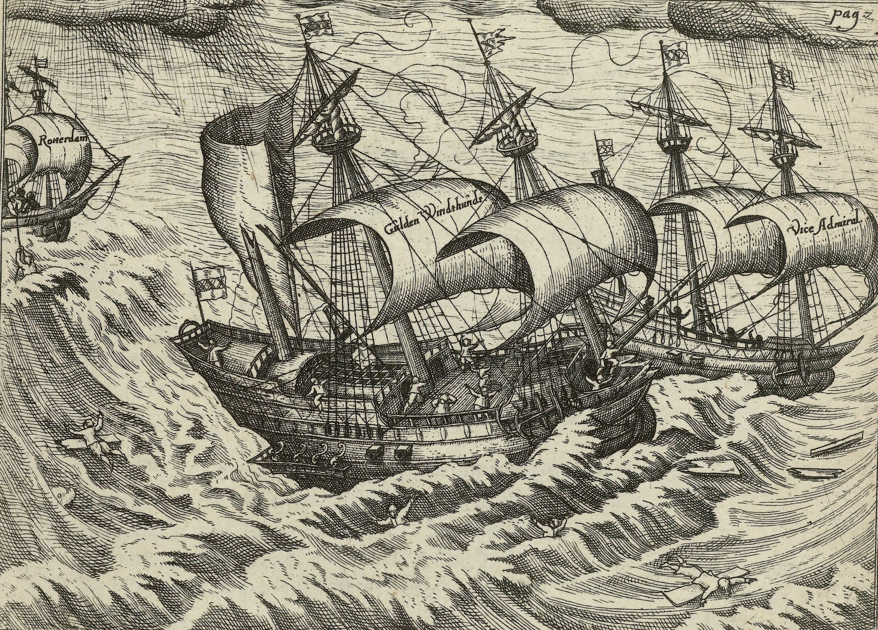 Collision between the ships of Barentsz and Van Linschoten, 1595 again the ships of Barentsz and Van Linschoten collide with each other during the second voyage, August 6, 1595. Opposite page 21 in: 'War-like Relation. Three new unprecedented strange ship types, Dutch and Zealand ship .... Anno 1594, 1595 und 1596 '(1598). See Discussion page